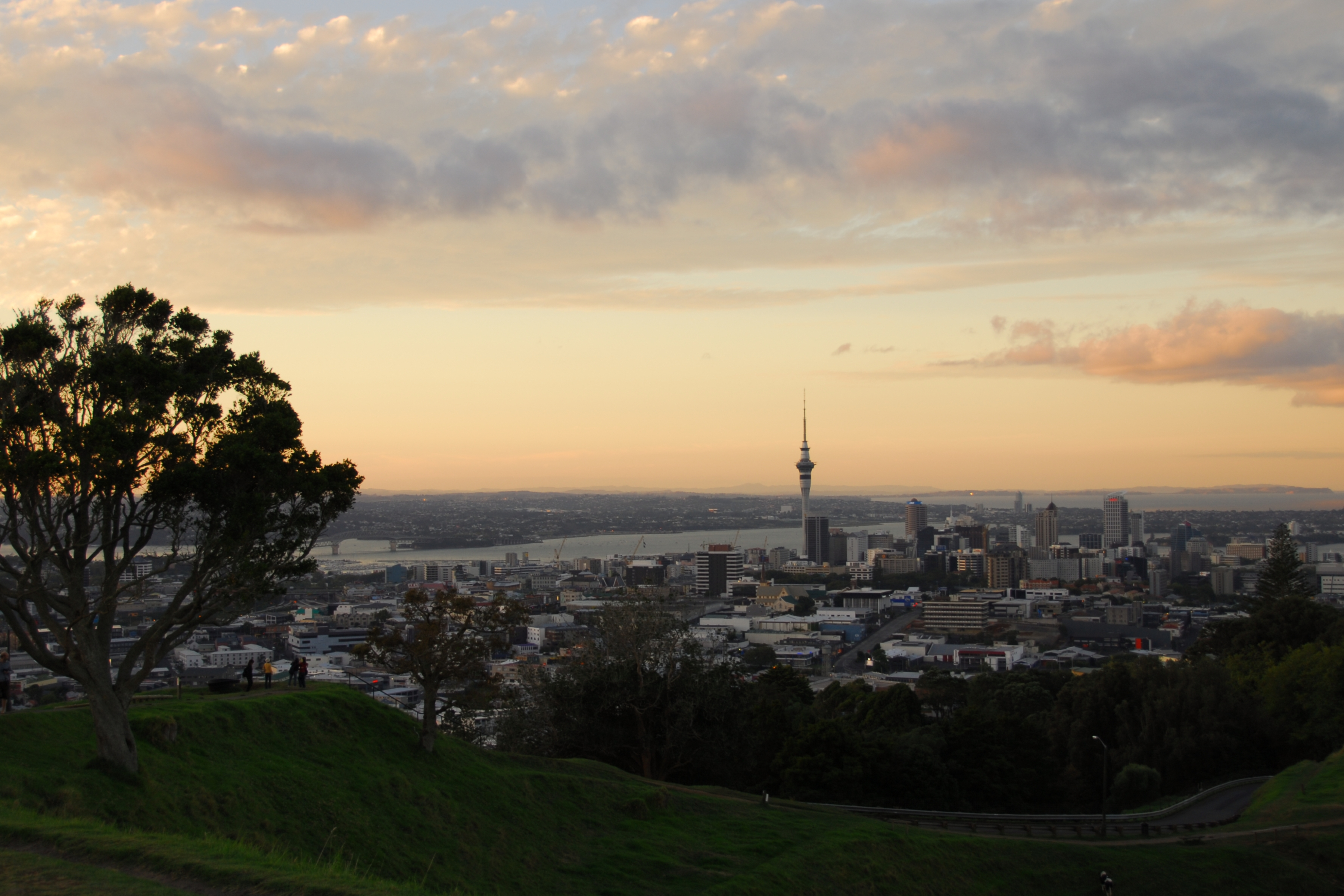 Sky Tower and Auckland Harbour Bridge seen from Mount Eden. Taken by Jubal John.